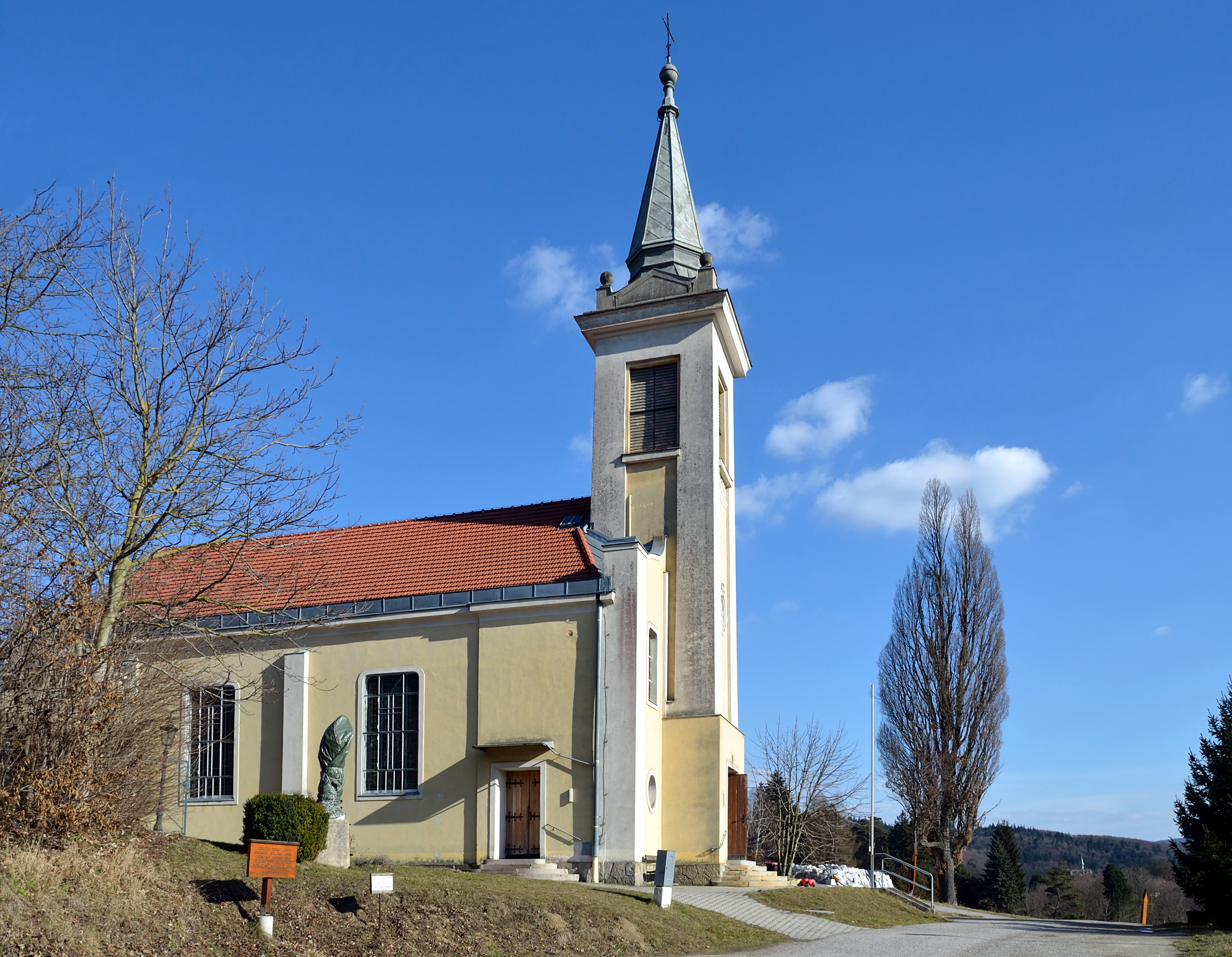 Maria Schnee (Our lady of the snow) in Irenental, municipality of Tullnerbach, was built in 1900.